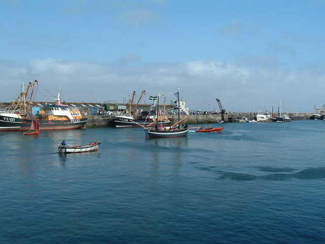 Newlyn Harbour Brand new replica Cornish Lugger 'Spirit of Mystery' in Newlyn Harbour